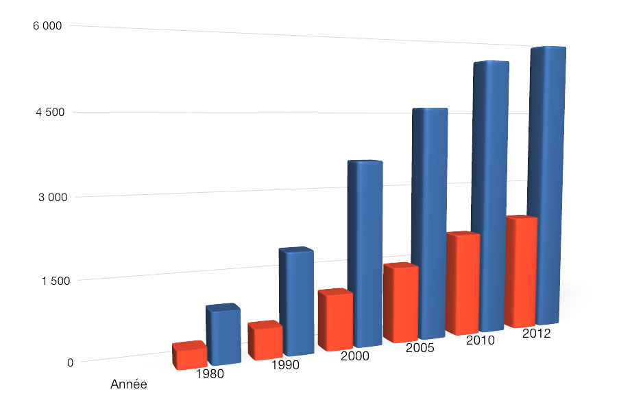 Chronological trend for Thyroid cancer ; red=men ; blue=Women. (cases identified in cancer registries in France between 1980 and 2012); Number of cases by year. Source: INVS Binder-Foucard F & al. (2013) National estimate of cancer incidence and mortality in France between 1980 and 2012. Part 1 - Solid tumors. Saint-Maurice (Fra): Institute for Public Health Surveillance, 2013. 122 p. | ISBN 978-2-11-138316-6 | Net ISBN 978-2-11-138317-3 | ISSN 1956-6964 (Note : all departments in France are not covered by a cancer registry.)